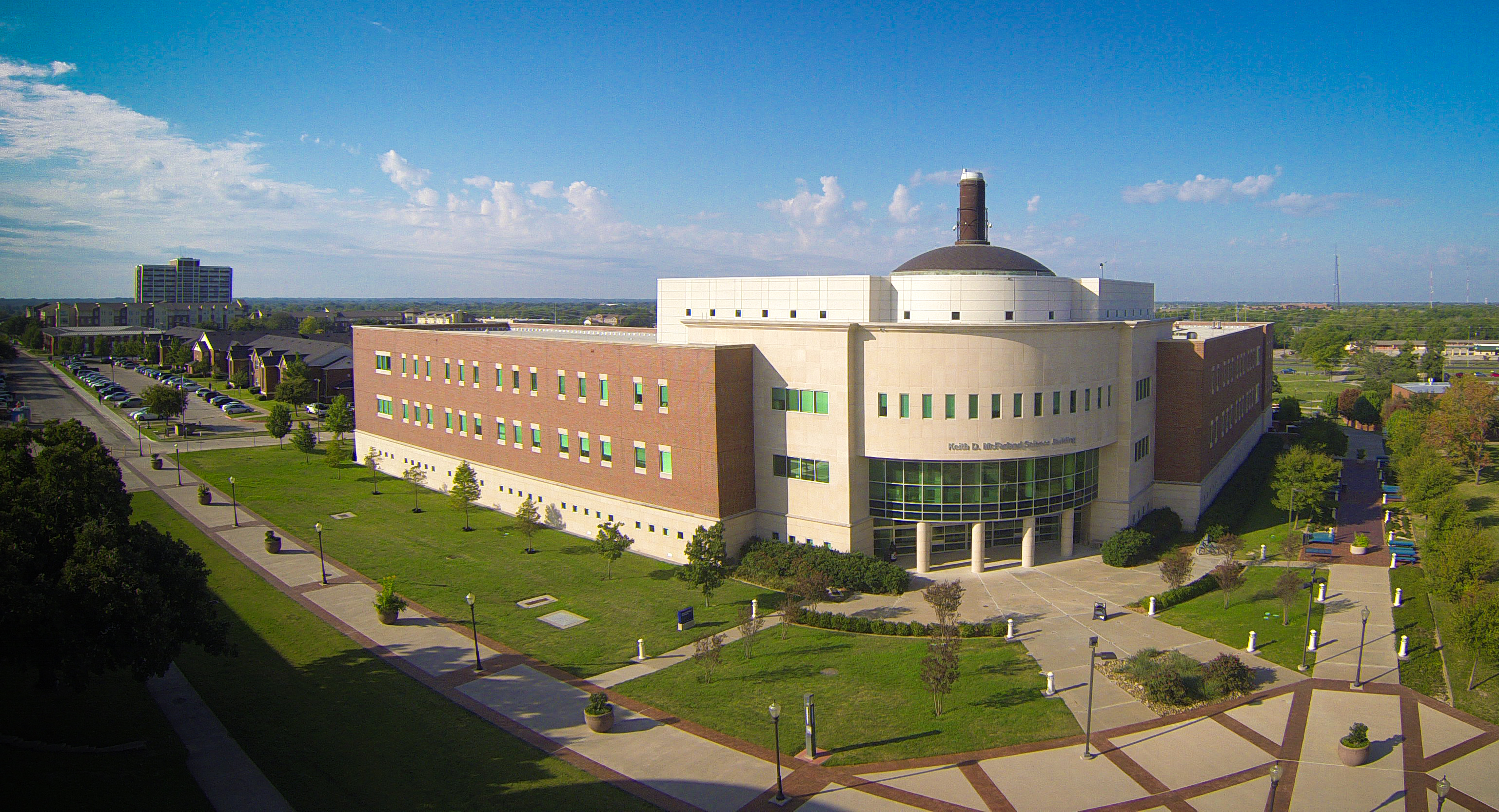 Dcim\104gopro McFarland Science Building